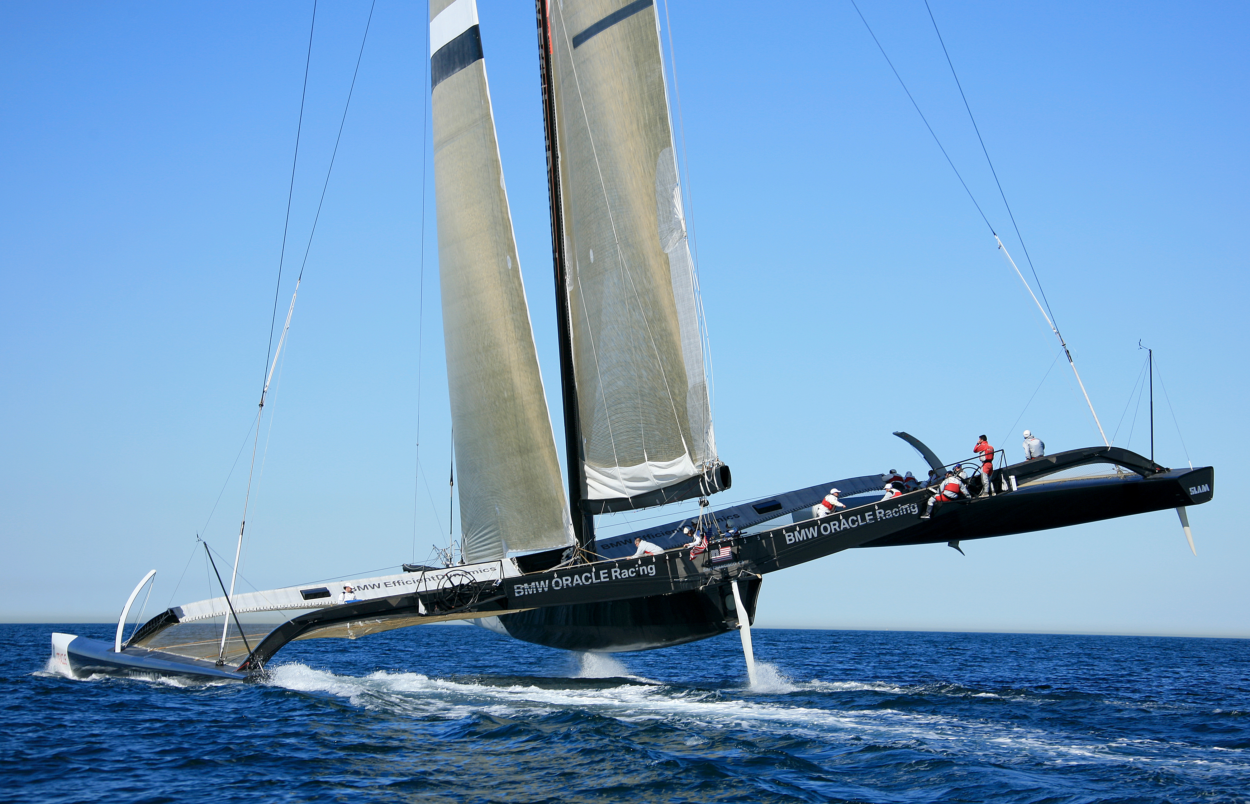 BMW Oracle racing BOR 90 trials off San Diego, pictured with its sail rig, instead of its wing-sail rig.